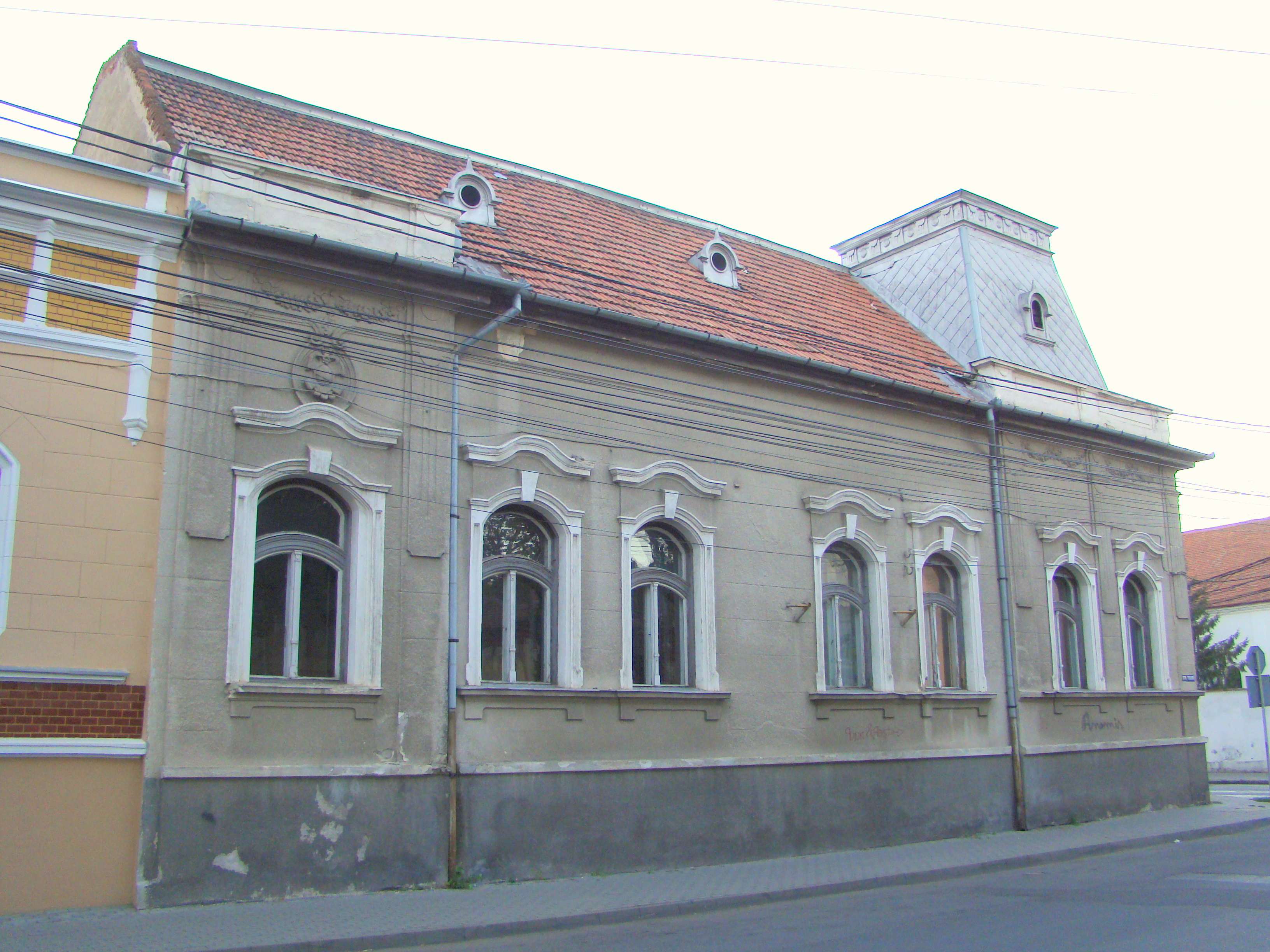 House, historic monument, Teilor street, number 17, Alba Iulia, Alba county, Romania